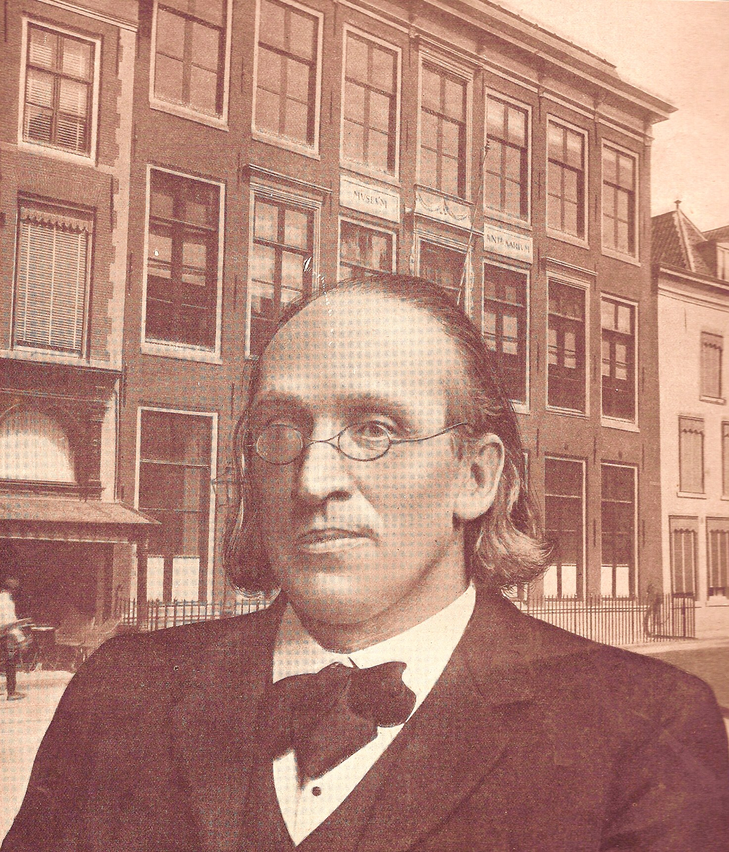 Prof. Dr. A.E.J. Holwerda